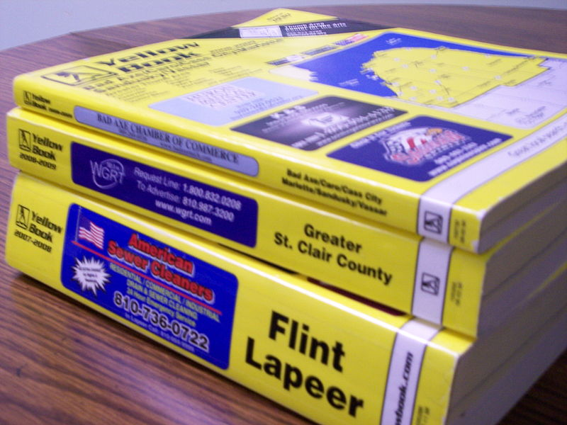 Picture of three Michigan Yellow Book Directories